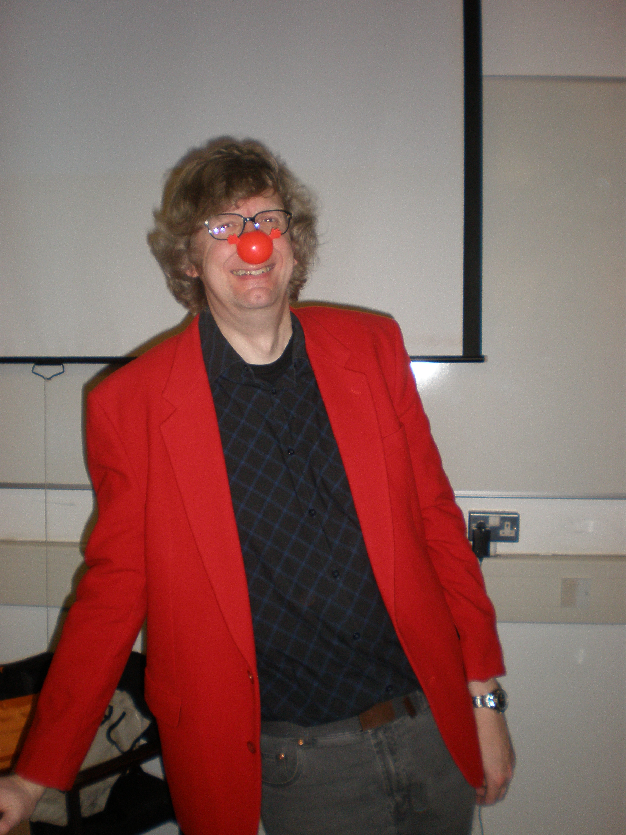 Picture of Rob Miles after a Red Nose Day "Lecture in Ryhme" 2009